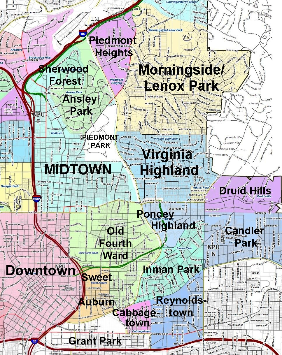 map of intown Atlanta showing Virginia Highland